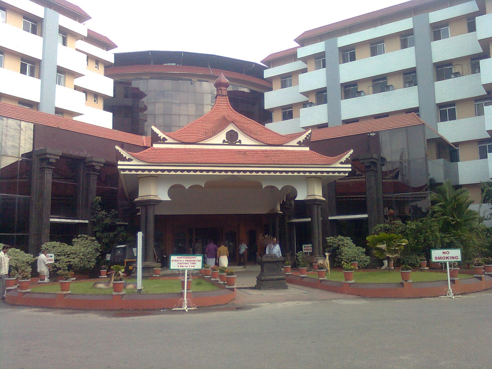 Main block of Amritha Medical College, Cochin.